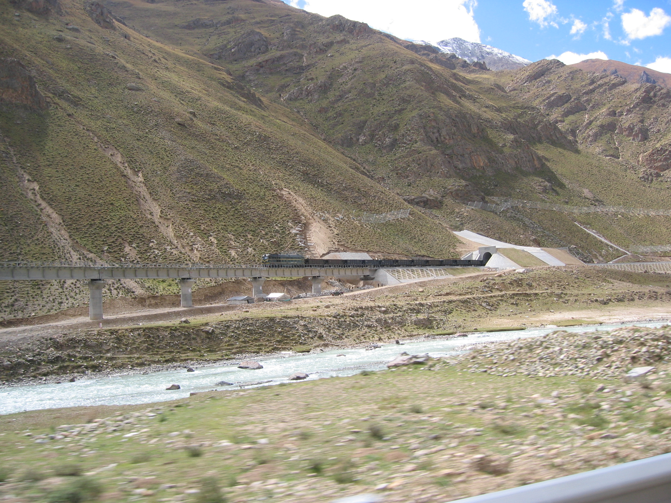 Qingzang railway (Lhasa railway), one of the first trains while the track is not finished completly. Positon aprox. 29°31′26″N 90°26′07″E / 29.524°N 90.4353°E